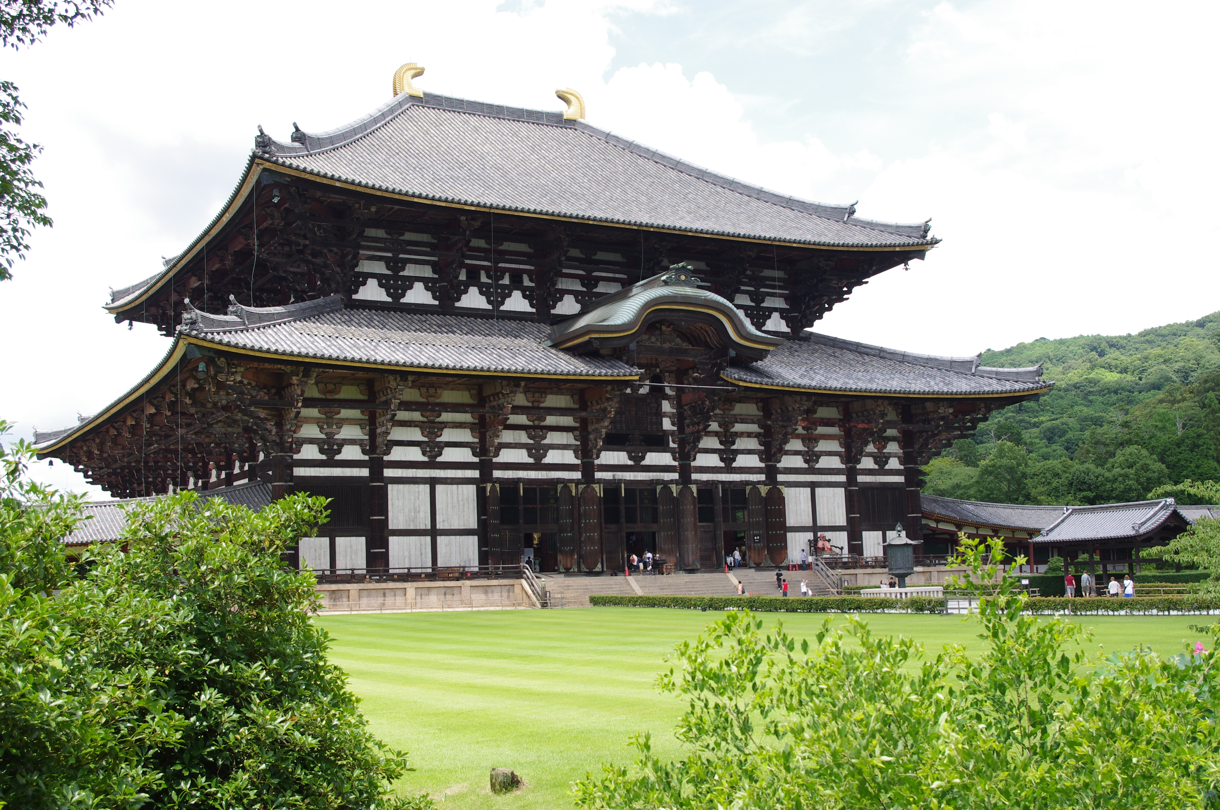 The Golden Hall of Todaiji Temple in Nara, Japan